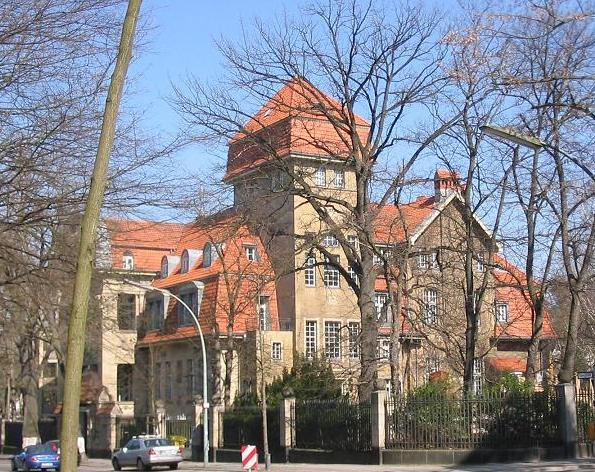 The villa "Walther" near the Hertha lake ("Herthasee") in Berlin